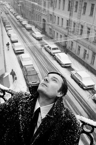 Portrait of Vladimir Dubossarsky.